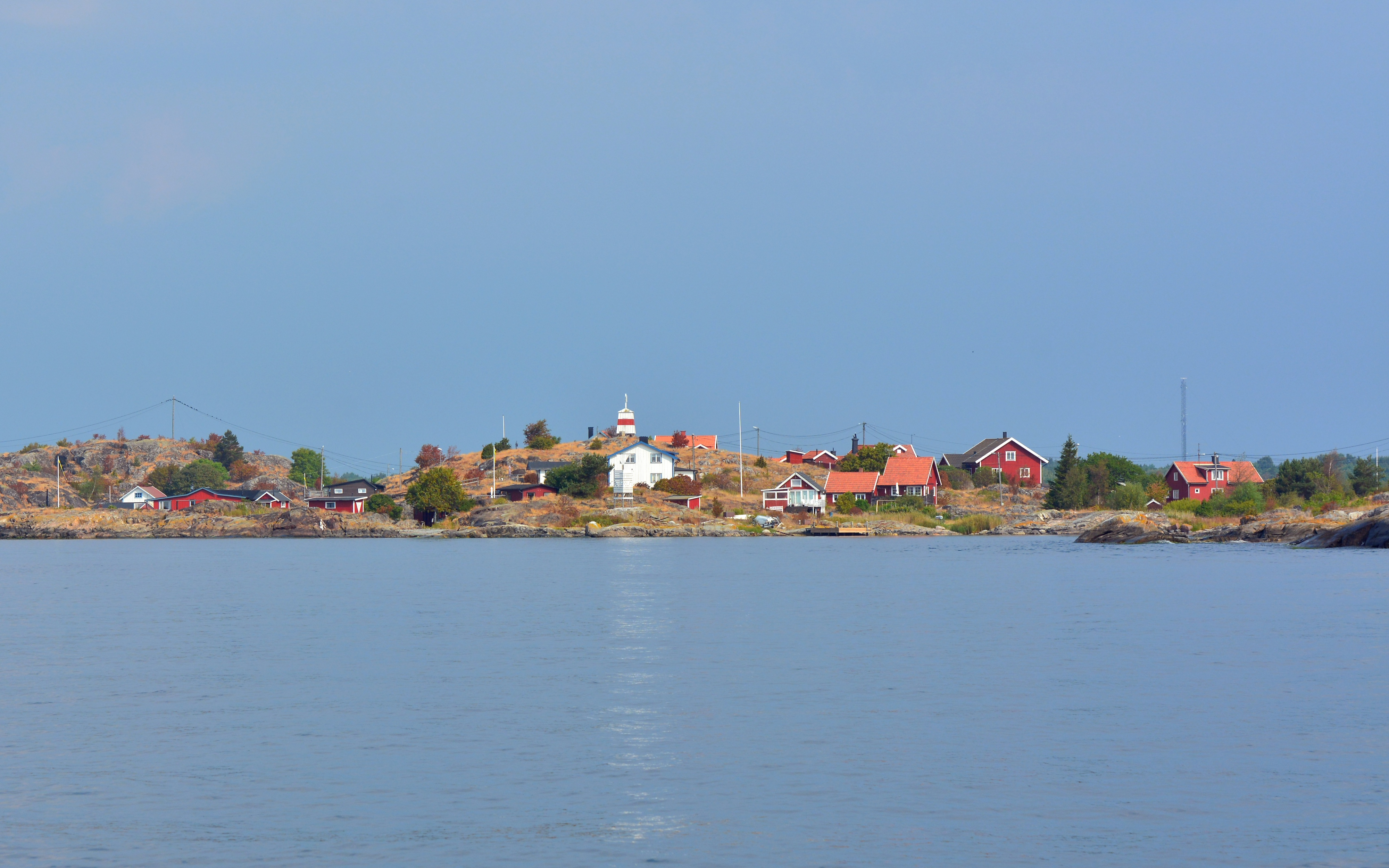 Fishing village at Krokskär between Torö and Landsort in Stockholm archipelago, Sweden.